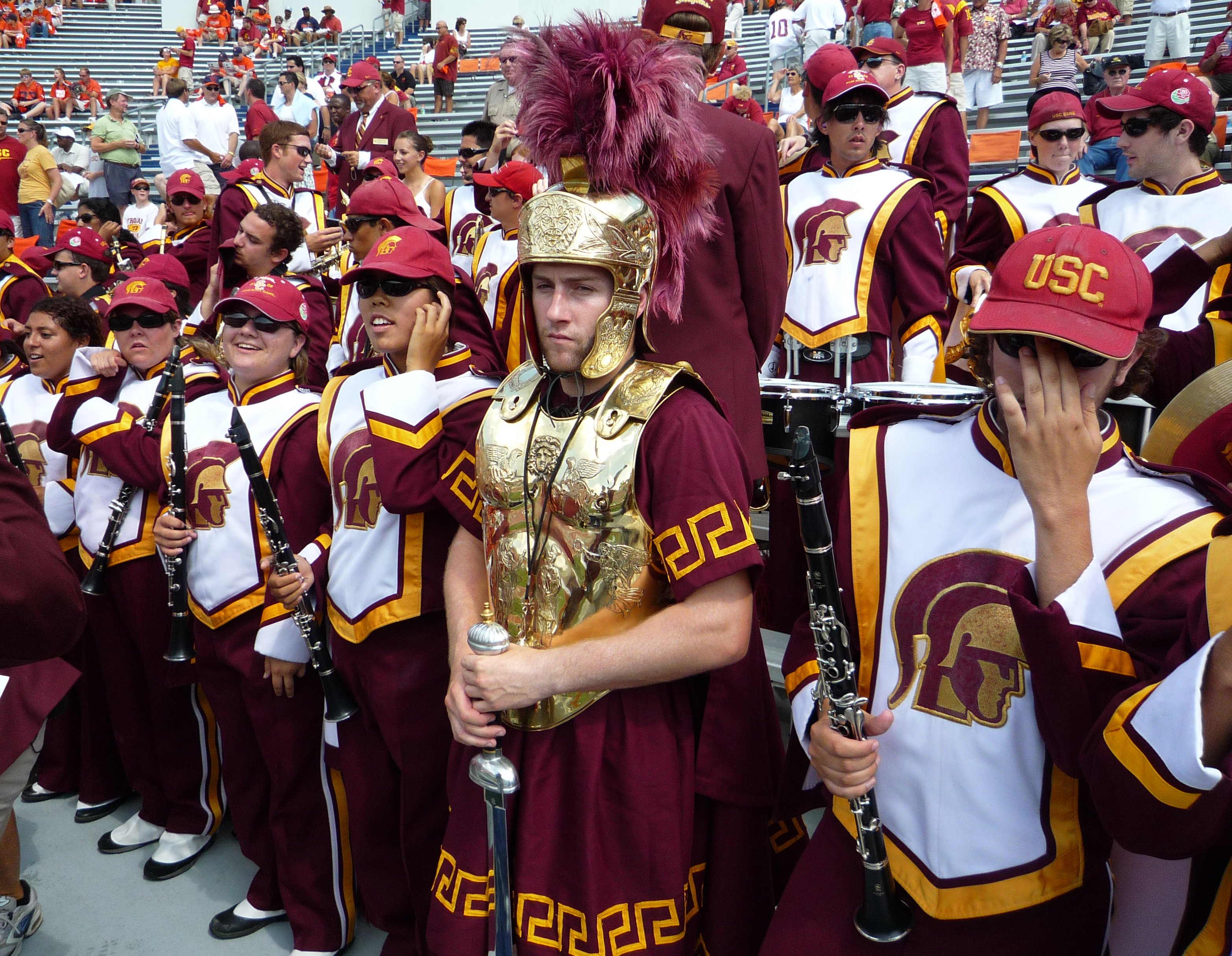 Members of the Spirit of Troy, most notably the Drum Major, who wears the more elaborate Trojan regalia; among other responsibilities, the drum major conducts the band, plants the sword in the middle of the field before home games, and keeps the band motivated. Taken before a 2008 USC game versus Virginia.